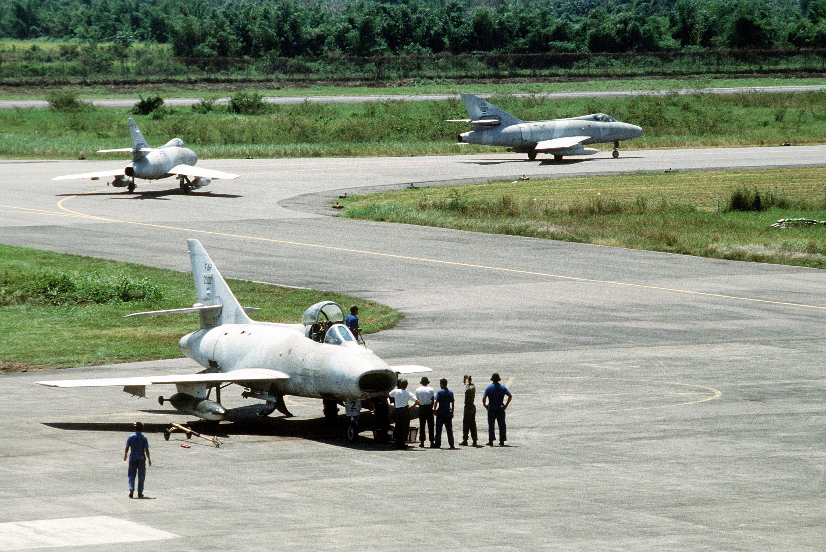 Honduran Super Mystere B.2 aircraft taxi on the flight line as ground crew members stand beside a third B.2 during a joint exercise between the 425th Tactical Fighter Training Squadron and Honduran air force units.